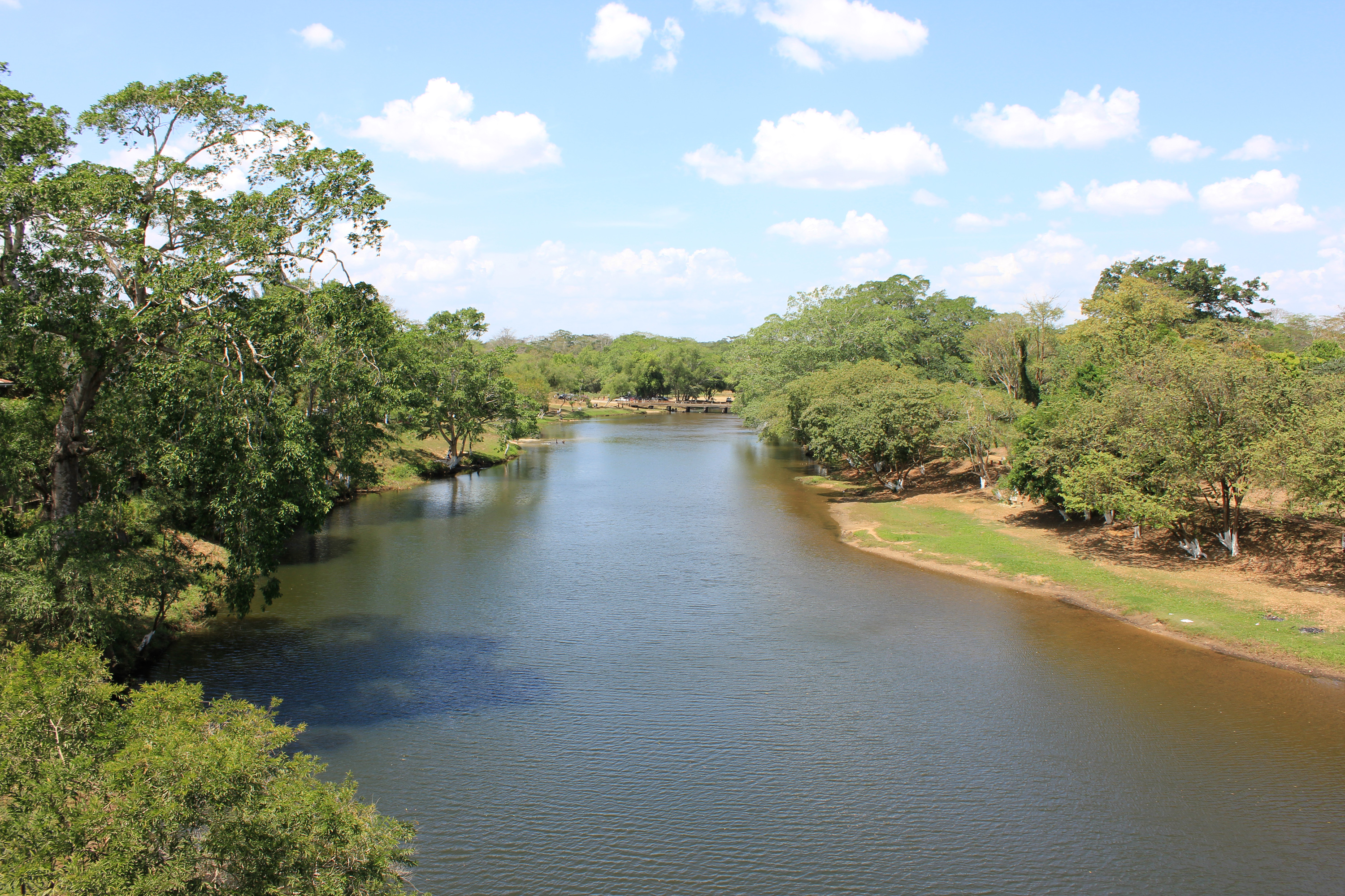 The Macal River as seen from the Hawksworth Bridge in San Ignacio, Belize